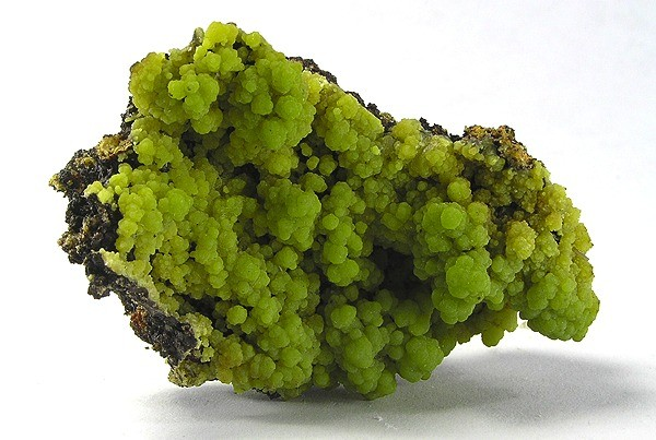 Mimetite Locality: Ojuela Mine, Mapimí, Municipio de Mapimí, Durango, Mexico (Locality at ) Size: 6.4 x 5.2 x 3.4 cm. This mimetite is quite familiar for the locality, except for the strange COLOR - pea-green rather than the familiar yellow! In botryoidal form, on the usual limonite matrix. From a small batch we got from this unusual find at a classic and prolific Mexican locality.